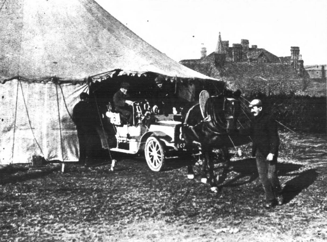 W. H. Astell's 15-H.P. Orleans coming out of the garage tent.